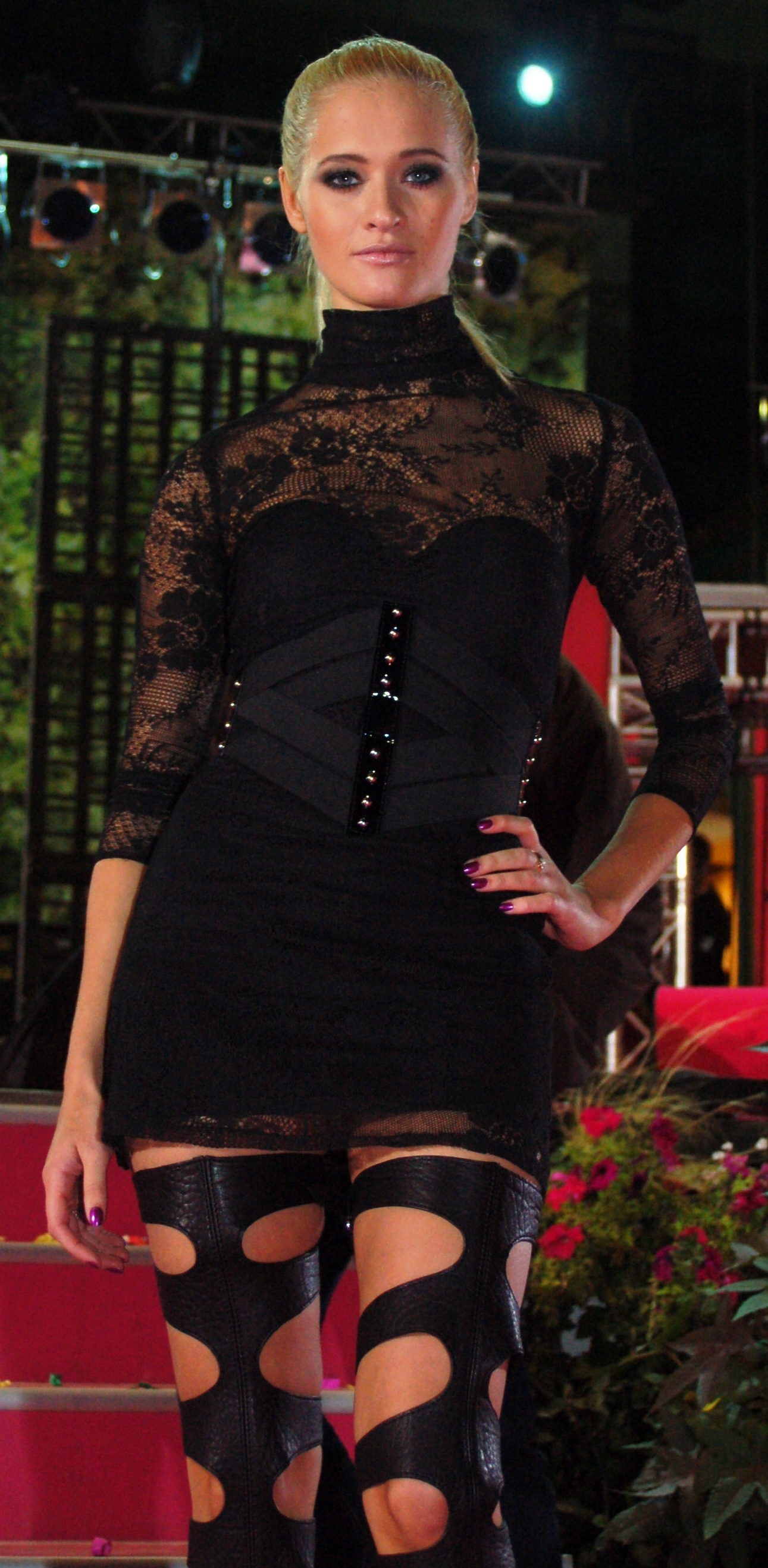 Elin Lanto at Gröna Lund, Sommarkrysset